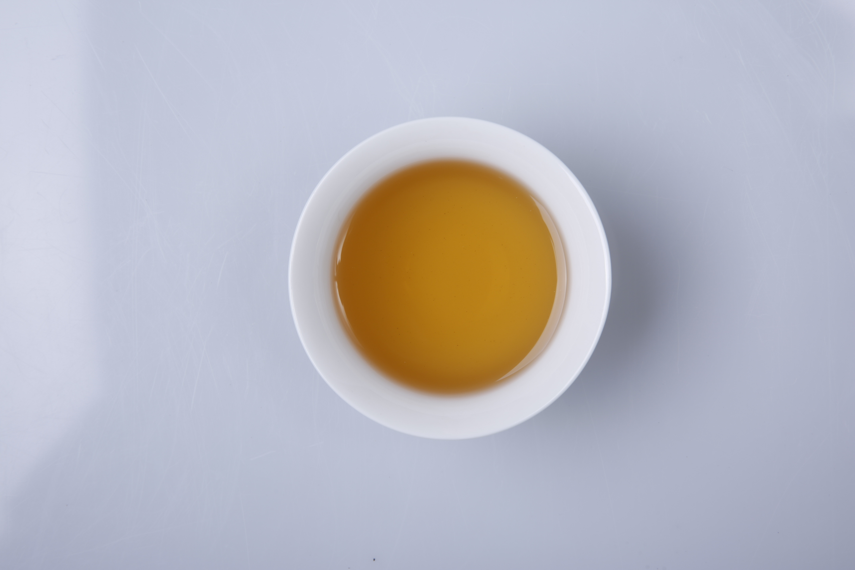 Deep orange